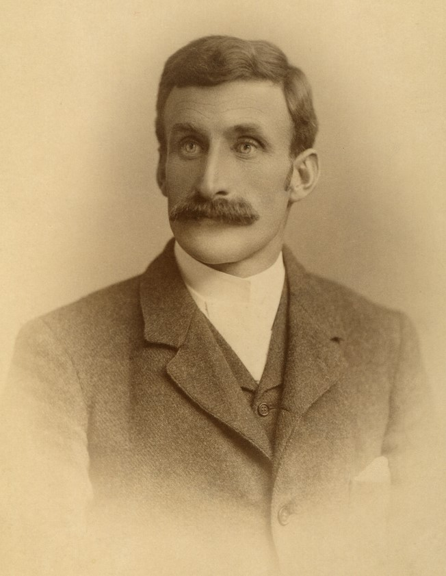 Portrait of Lawrence Wells.